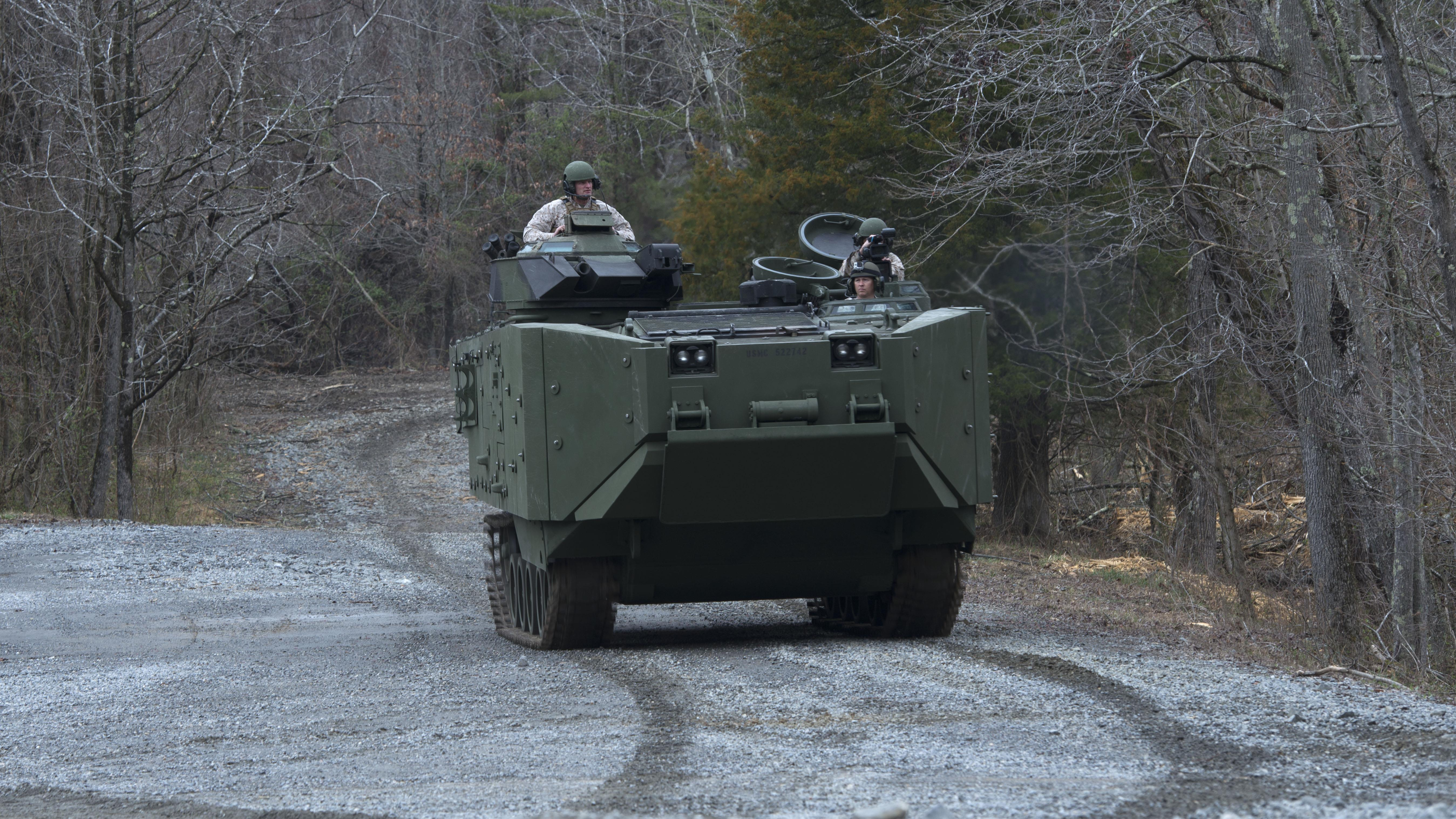 Marines give civilian media a ride in the inside the Amphibious Assault Vehicle Survivability Upgrade at Marine Corps Base Quantico, Va., March 15, 2016. The AAV SU, or amphibious assault vehicle survivability upgrade, will build upon the existing hull. The upgrades include additional armor, blast-mitigating seats and spall liners. They may also include fuel tank protection and automotive and suspension upgrades to keep both land and sea mobility regardless of the added weight. Unit: Defense Media Activity - Marines